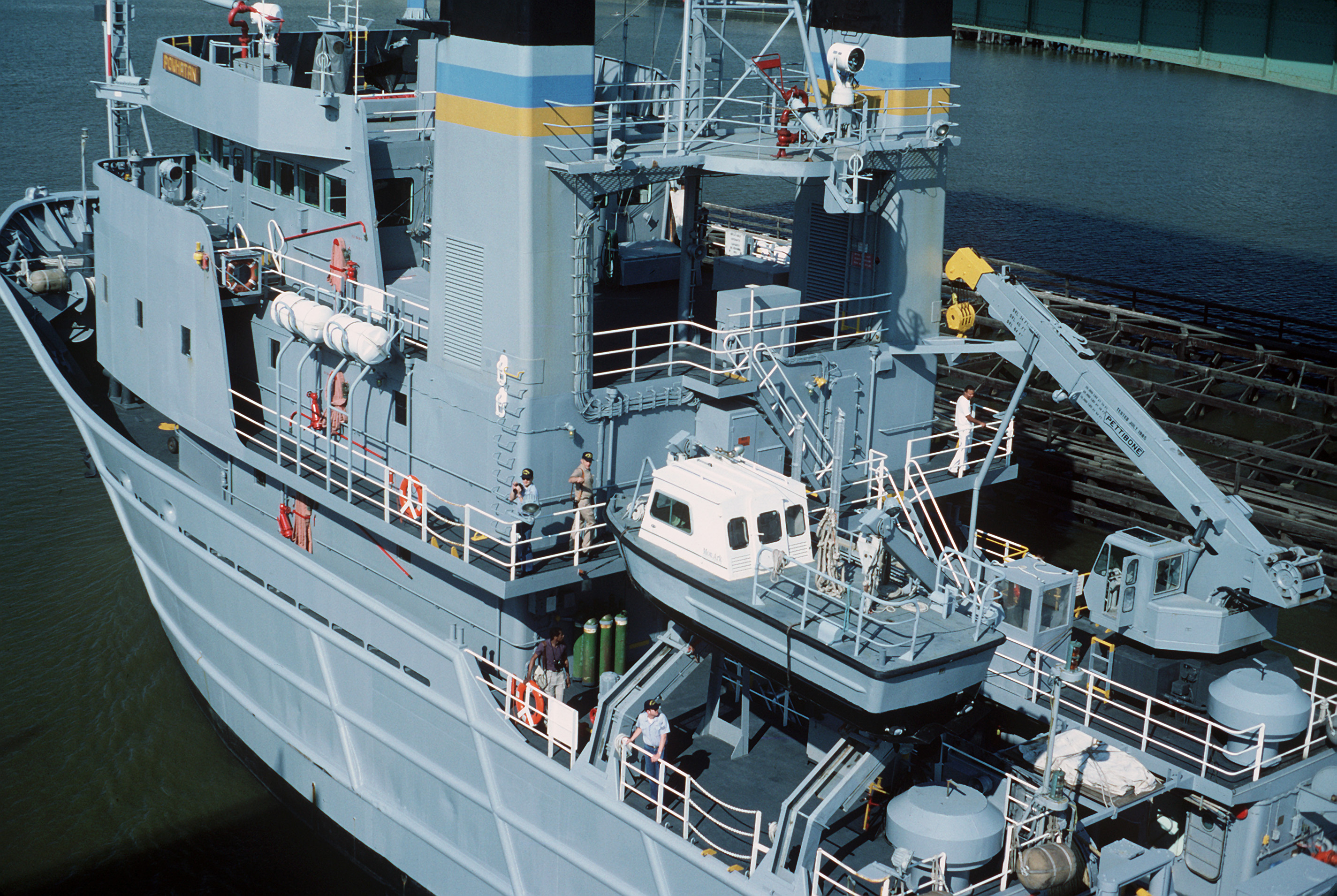 A port view of the amidships area of the fleet tug USNS POWHATAN (T-ATF 166) as she enters the open draw span of the Frederick Douglass Memorial Bridge on the Anacostia River. Location: WASHINGTON, DISTRICT OF COLUMBIA (DC) UNITED STATES OF AMERICA (USA)